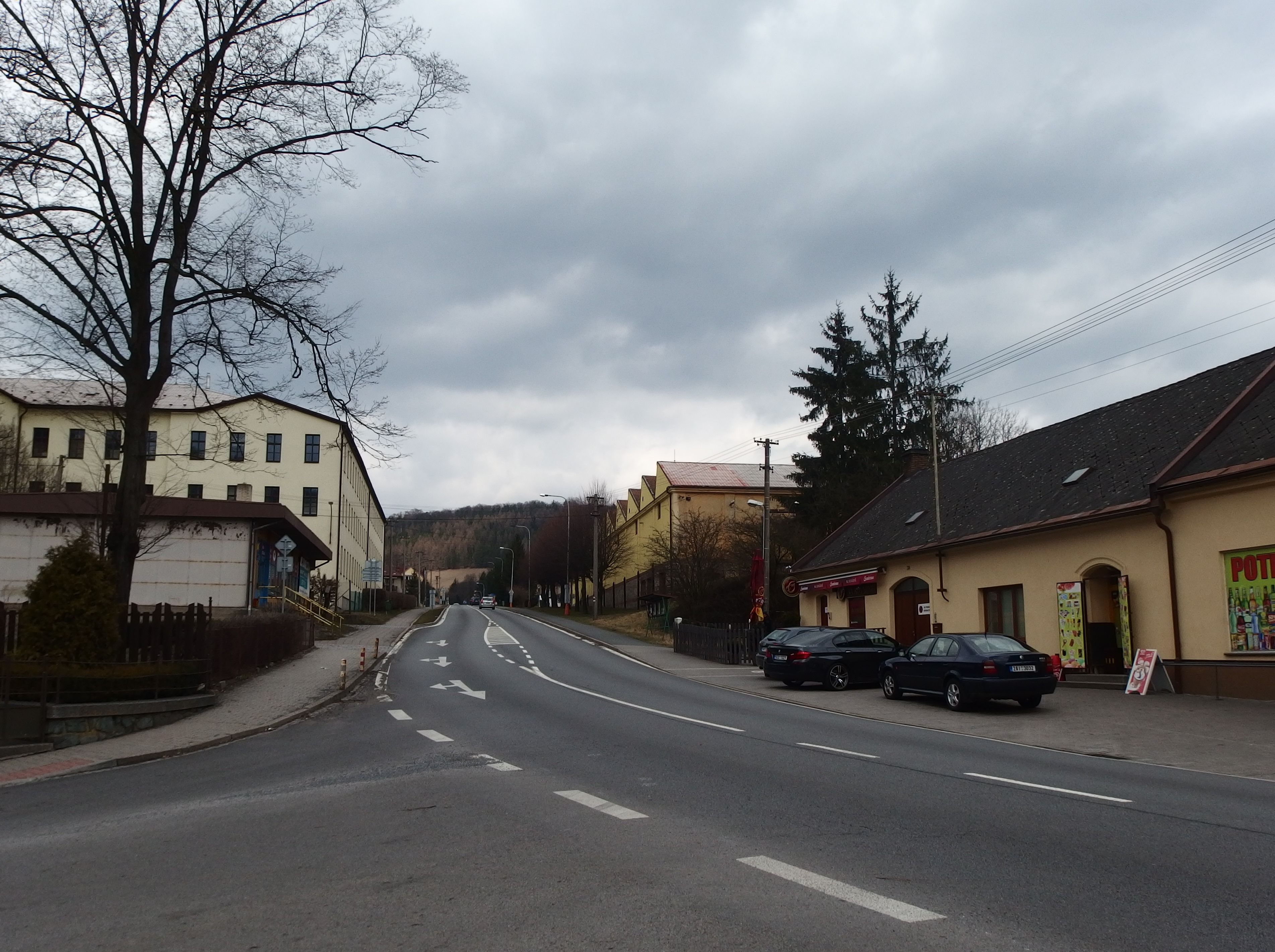 Brněnec, Svitavy District, Czech Republic, part Moravská Chrastová.